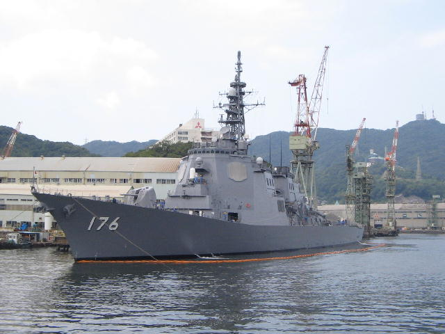 DDG-176 Choukai (Kongou class destroyers) Japan Maritime Self Defense Force